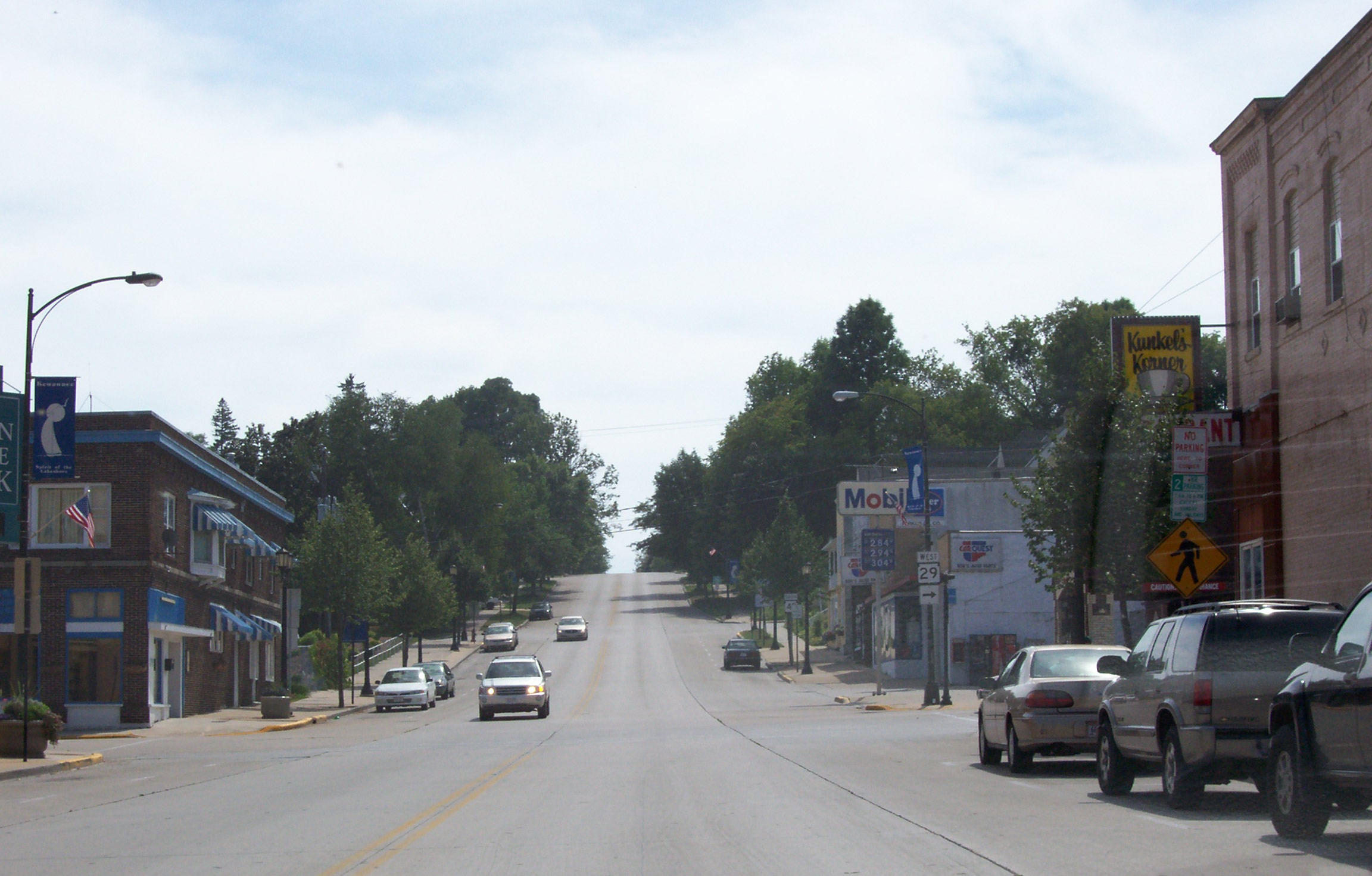 A picture of Kewaunee, Wisconsin, traveling southbound on Highway 42 (Wisconsin) at the east terminus of Highway 29 (Wisconsin). The intersection is located in the Marquette Historic District, a registered historic place. This image was taken August 27, 2006 by User:Royalbroil Category:Images of Wisconsin highways